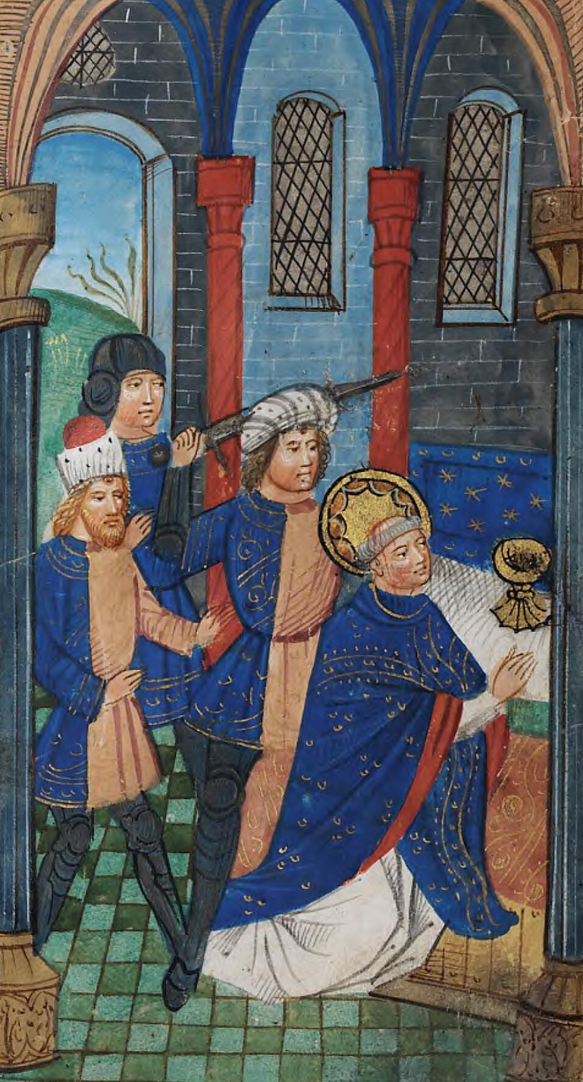 A medieval Book of Hours probably written for the De Grey family of Ruthin c.1390